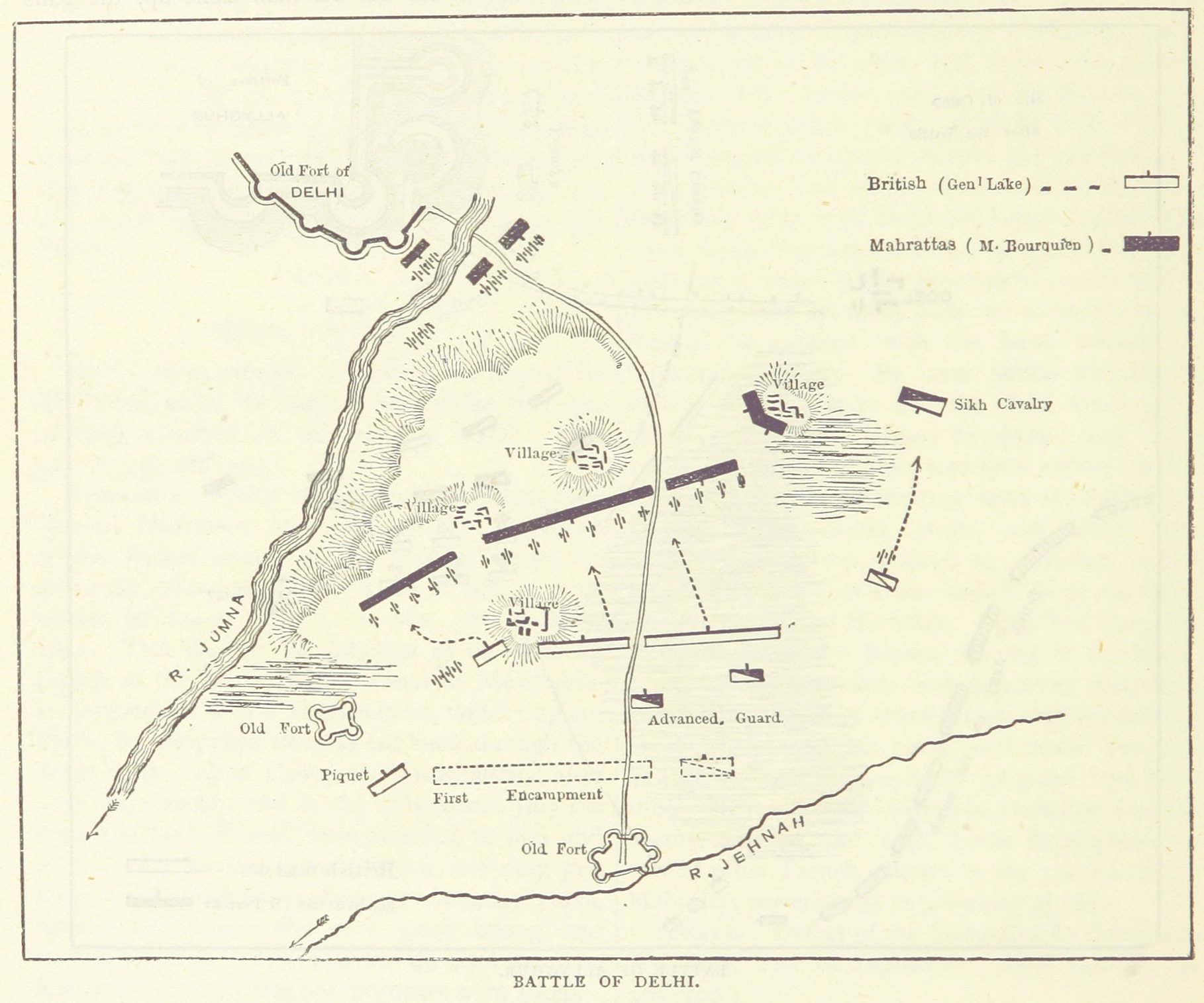 The 1803 Battle of Delhi, a British East India Company victory over the Maratha Empire.